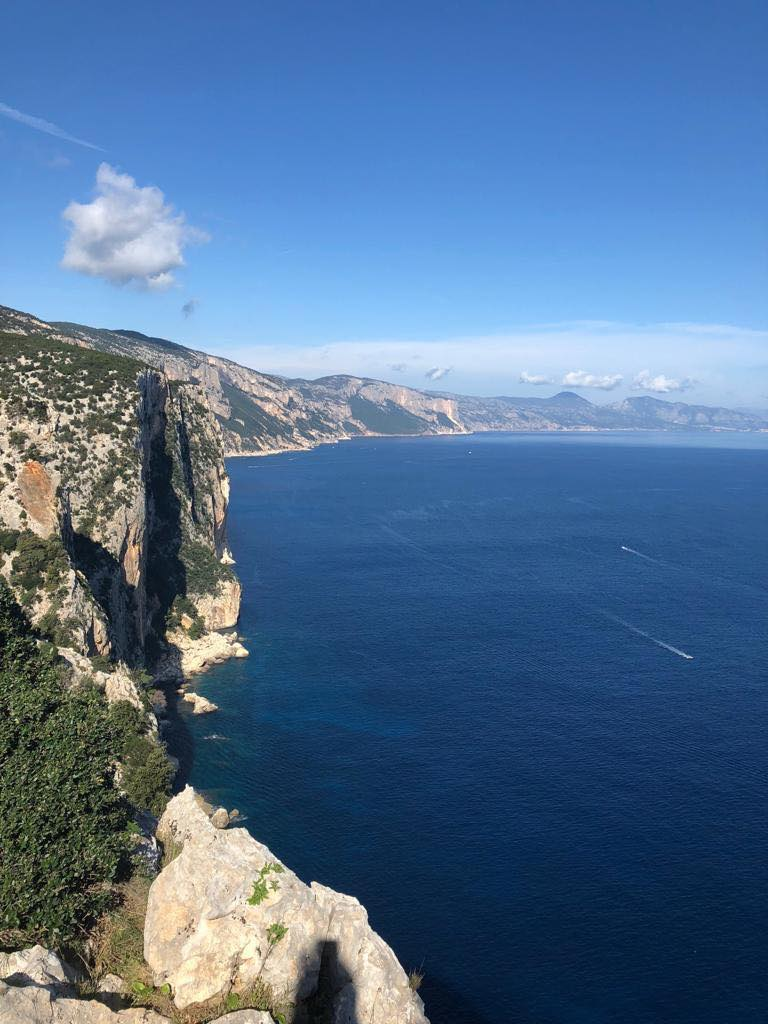 Picture of the Selvaggio Blu´s cliff coast on Sardinia.